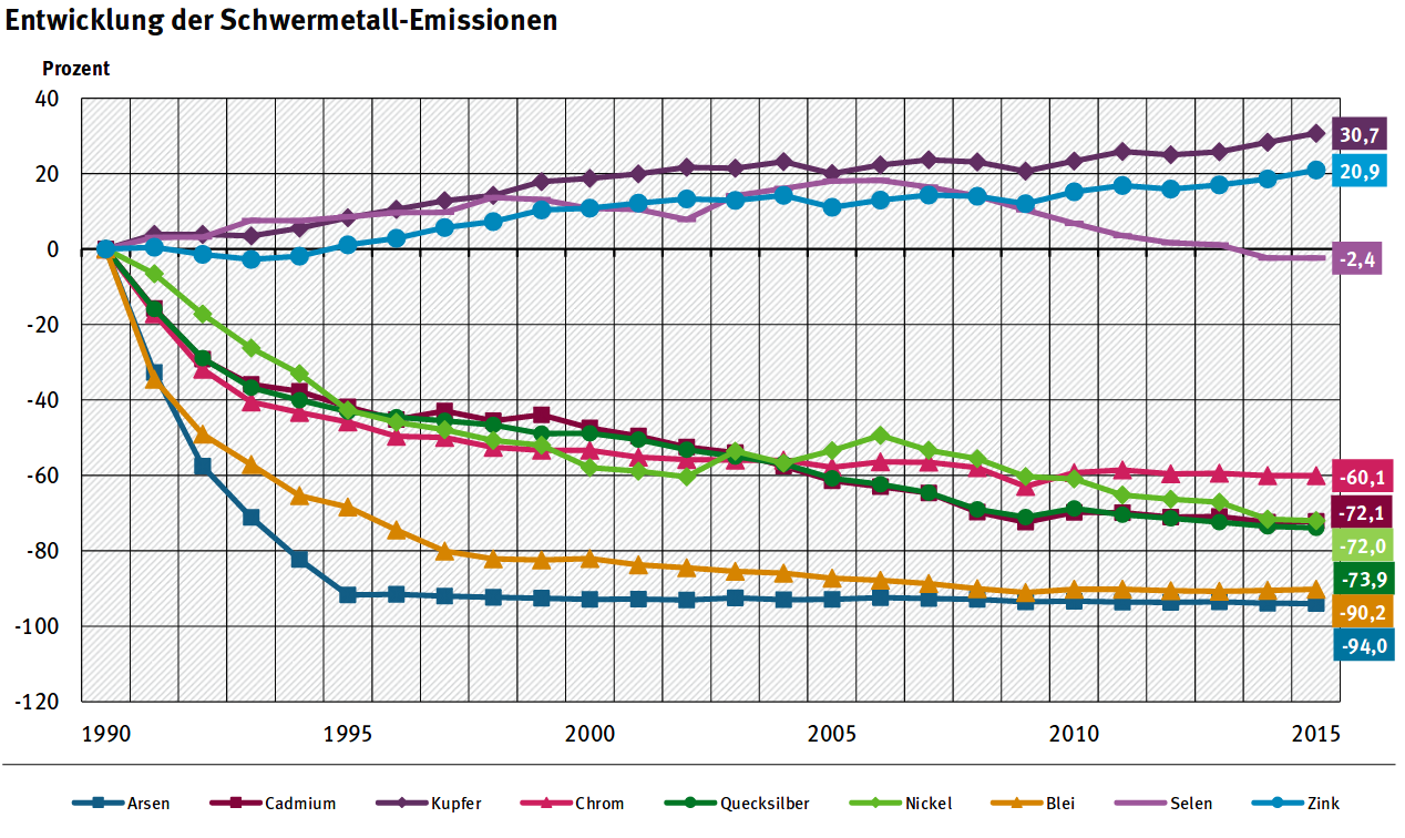 Heavy metal - emissions in Germany since 1990